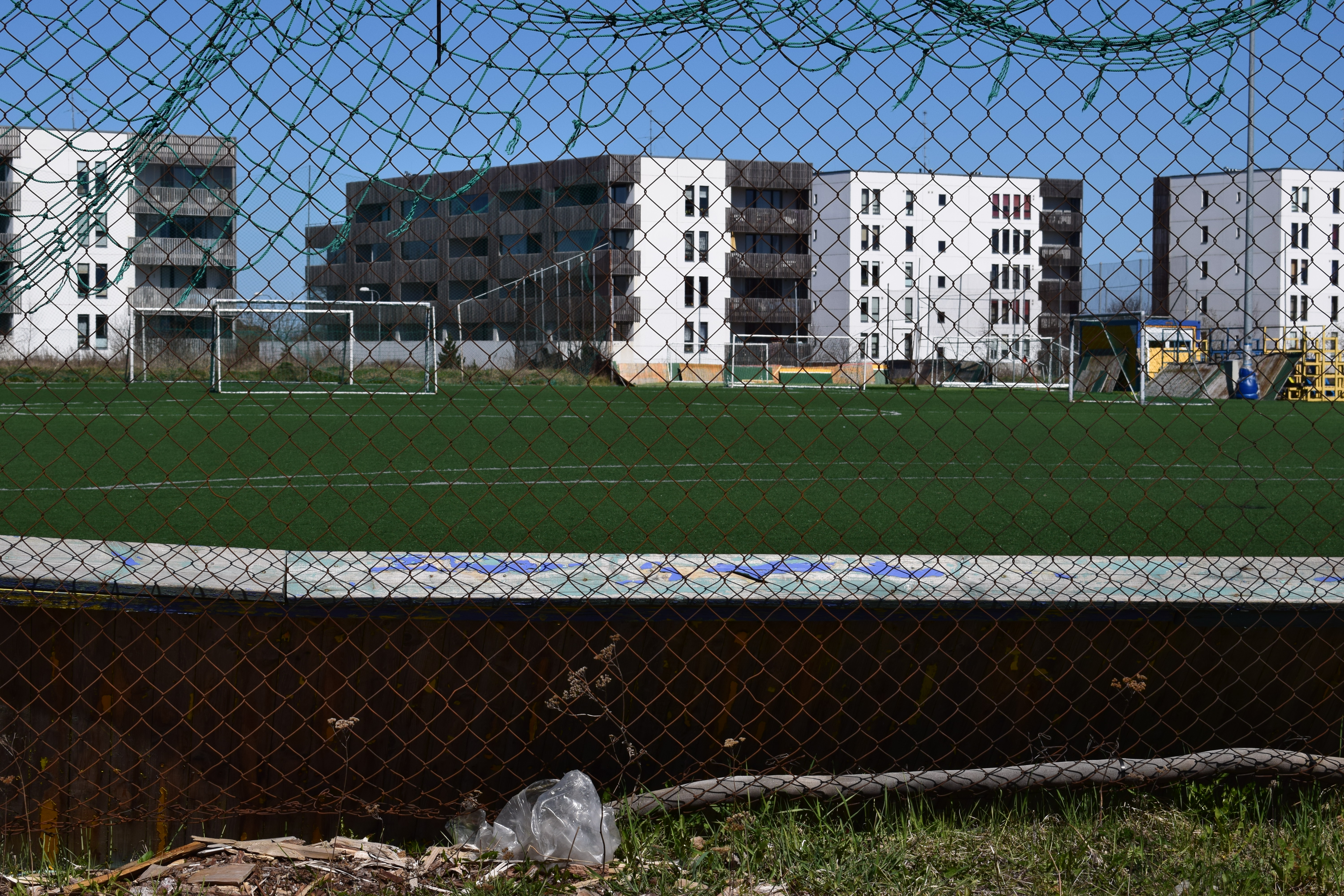 Ajax stadium